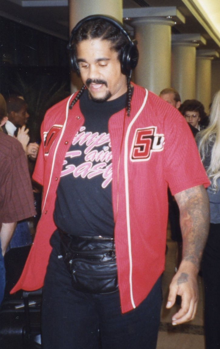 Paul Wright AKA The Godfather, during a WWF tour at Manchester, England in April 4, 1998.